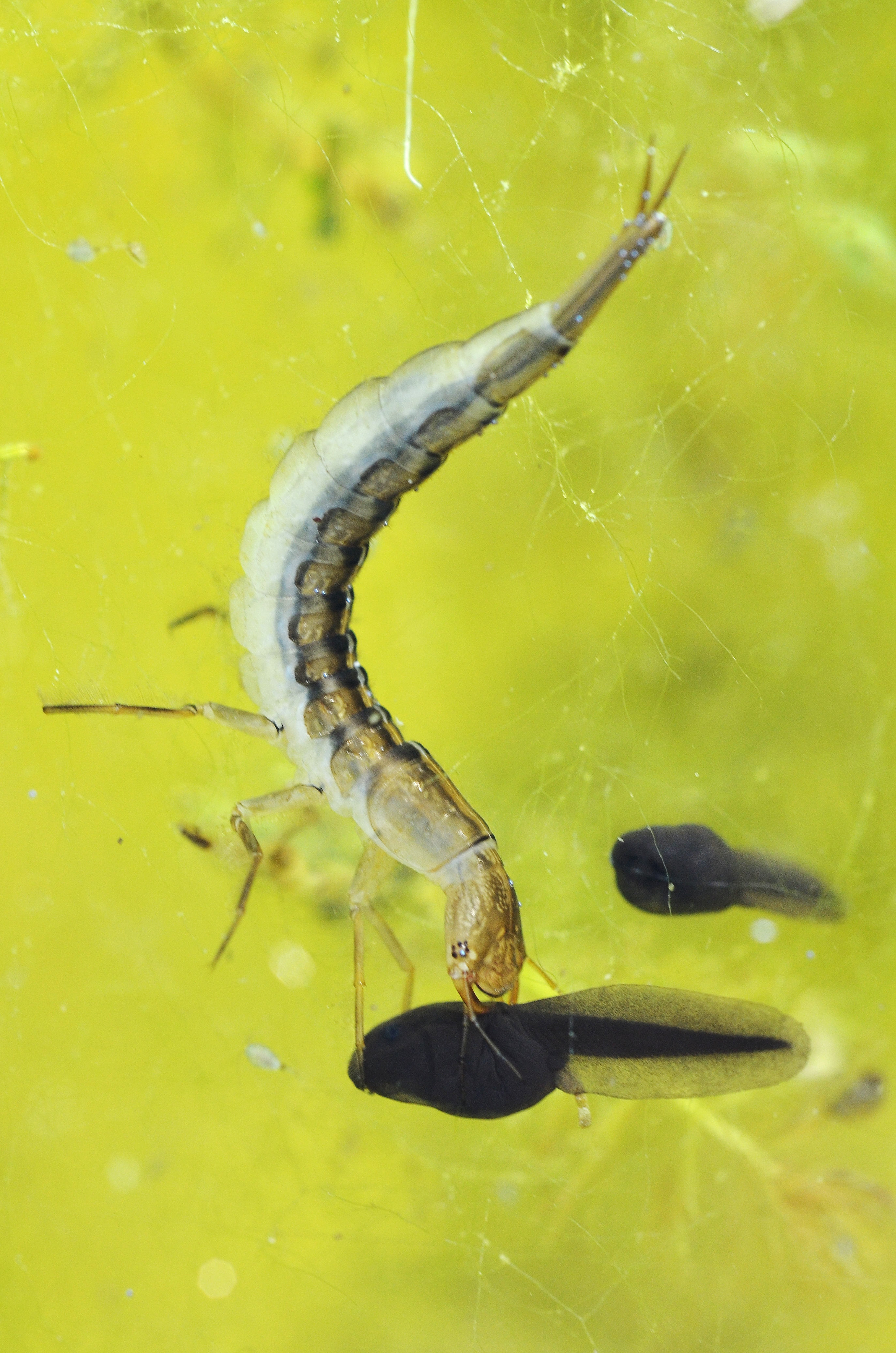 Diving beetle larva, Dytiscus sp. (Coleoptera, Dytiscidae) eating a tadpole in natural conditions Locality : Hombourg, Belgium